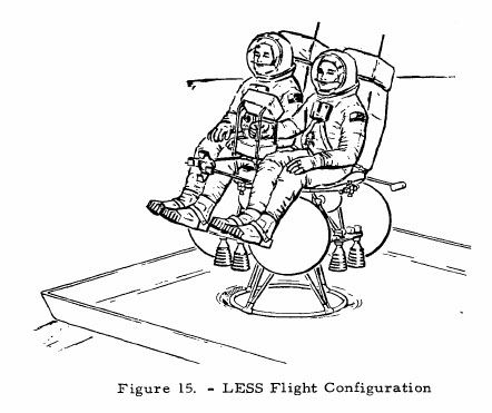 An example of a proposed Lunar Escape System for returning Apollo astronauts from the lunar surface to an orbiting spacecraft if the Lunar Module ascent engine failed to ignite.